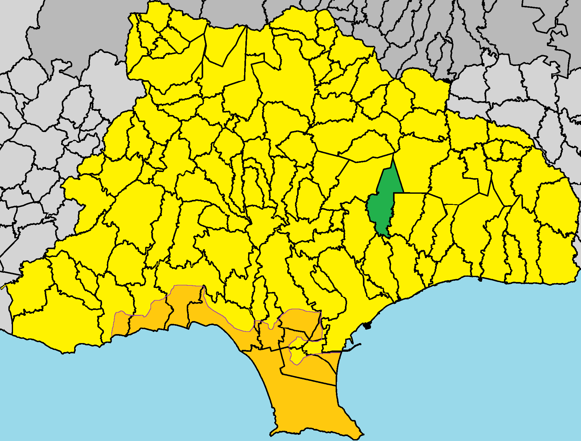 Mathikoloni in Limassol District.